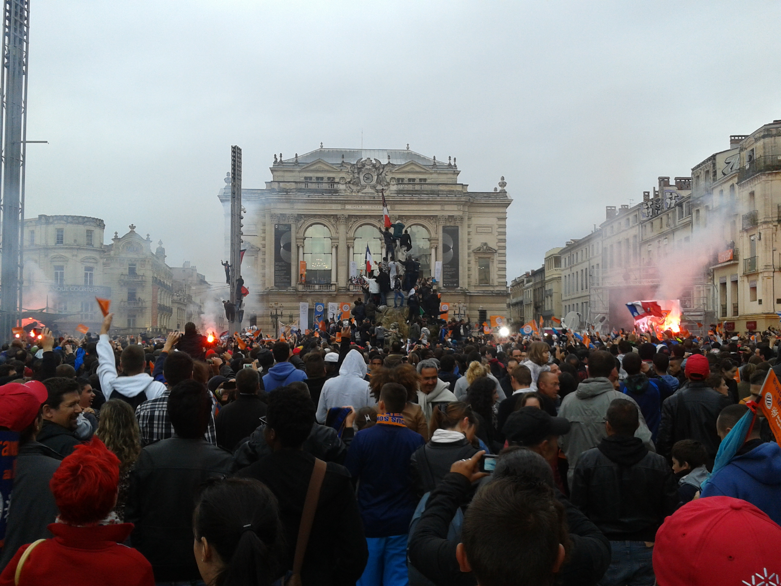 Celebrating Montpellier becoming champions of France (football)